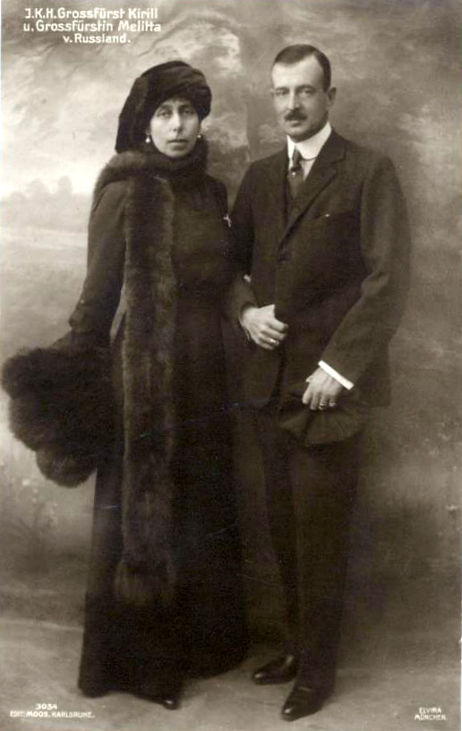 Victoria Melita of Edinburgh and Saxe-Coburg and Gotha and Grand Duke Cyril Vladimirovich of Russia.